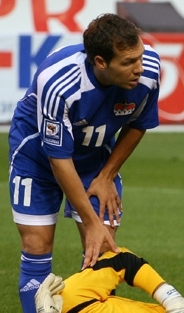 Franz Burgmeier in Liechtenstein national football team